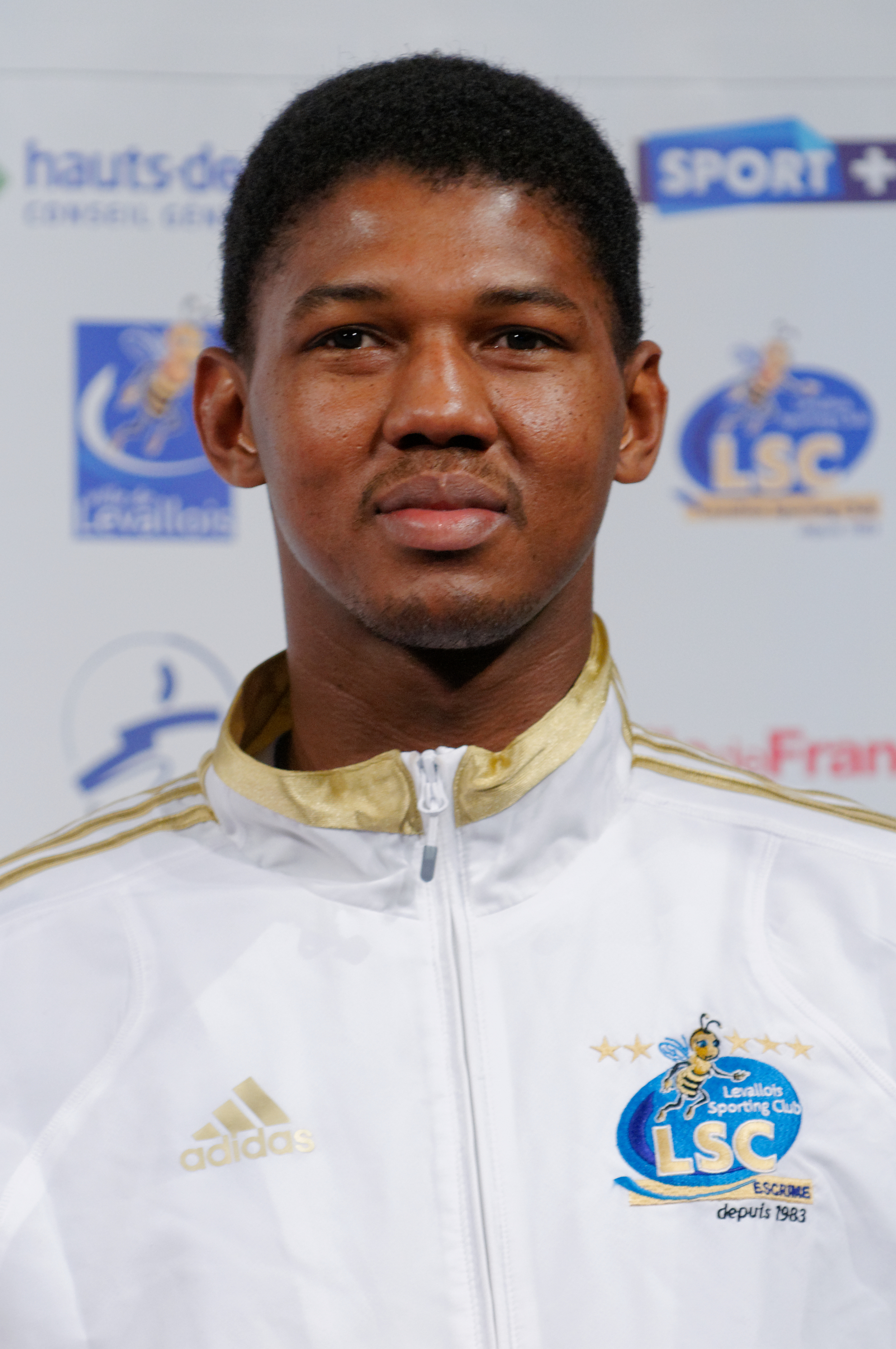 Ulrich Robeiri on the podium of the Masters à l'épée 2012.